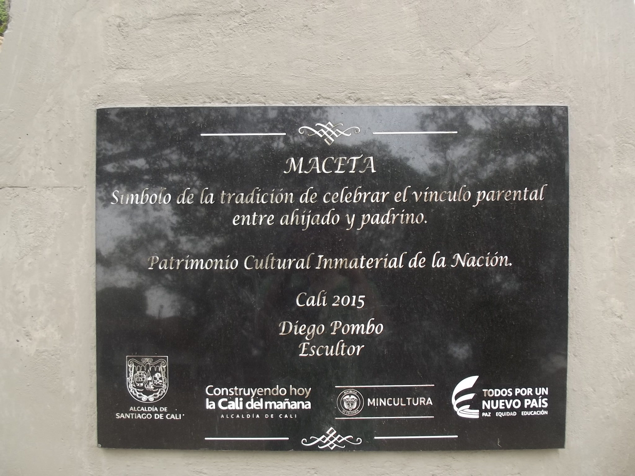 Descriptive plaque of the Monument to the "Maceta": Maceta: Symbol of the tradition of celebrating the parental bond between godfather and godson. Intangible Cultural Heritage of the Nation (Colombia). Cali 2015 Diego Pombo. SculptorInterlingua: Placa descriptive del Monumento al Maceta, in le cual es pote leger: Maceta: Symbolo del tradition de celebrar le vinculo parental inter le patrino e le filiolo. Hereditage intangibile del Nation (Colombia) Cali 2015 Diego Pombo. Sculptor